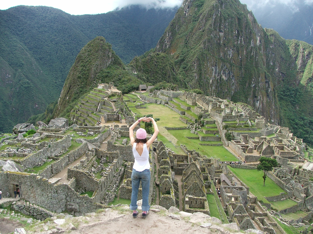 Girl on top of Machu Picchu. From a 2006 trip.